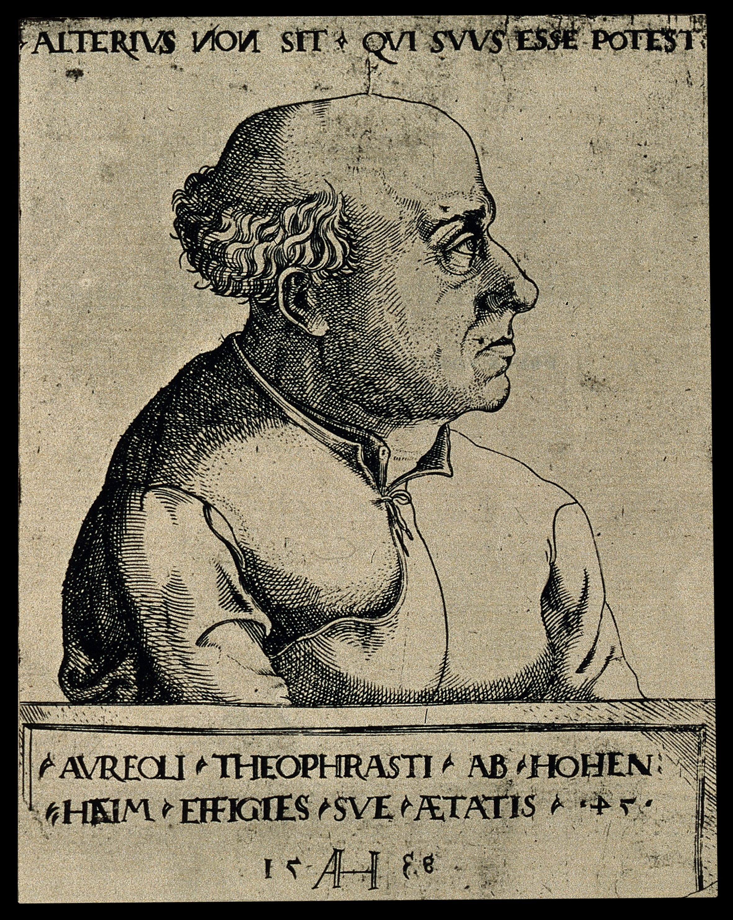 Aureolus Theophrastus Bombastus von Hohenheim [Paracelsus]. Reproduction, 1927, of etching by A. Hirschvogel, 1538. Iconographic Collections Keywords: Portraits; paracelsus, aureolus theophras; Augustin Hirschvogel; Paracelsus